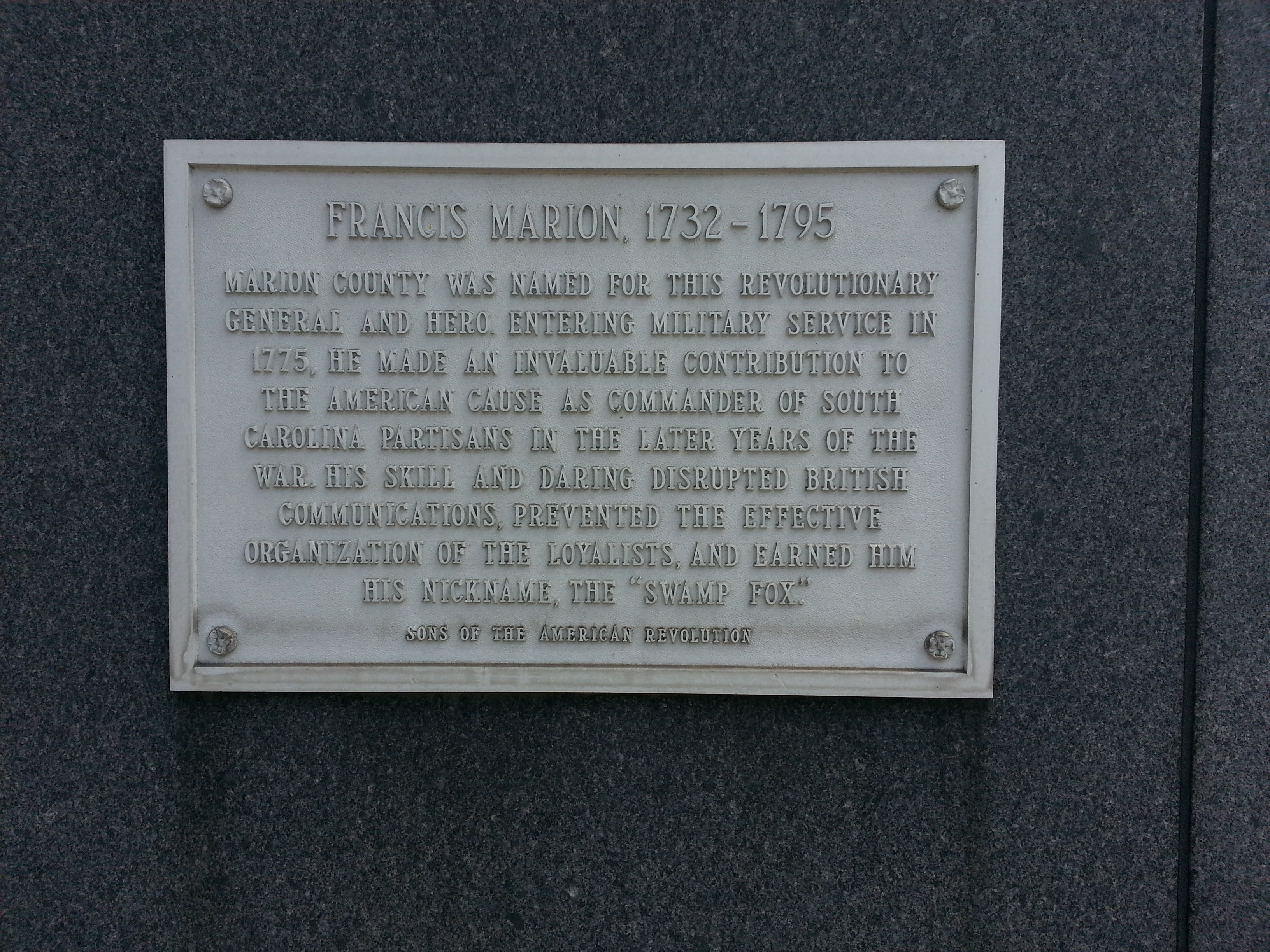 Sign on the Indianapolis City County Building documenting Francis Marion, who Marion County Indiana was named for.